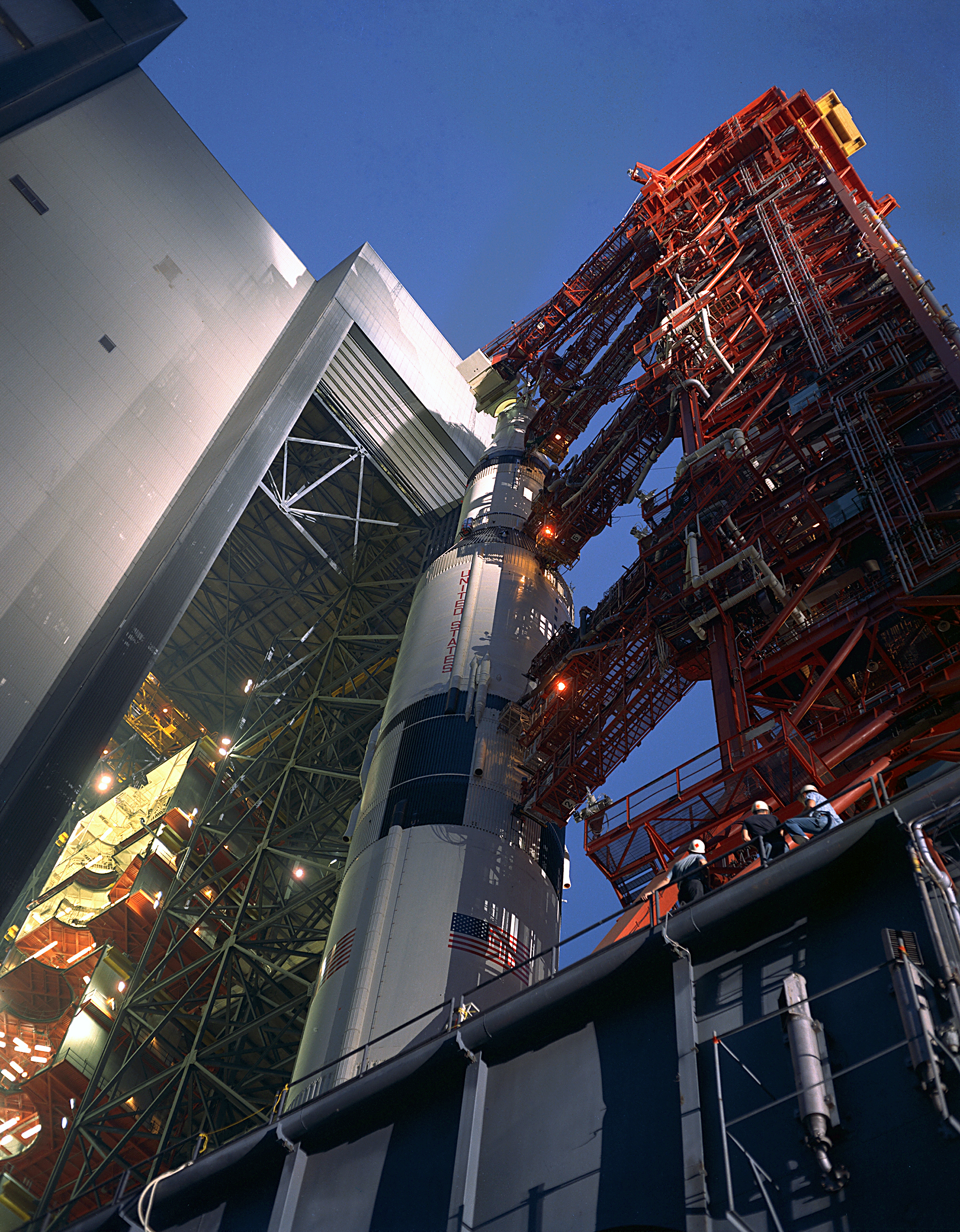 The transporter carries the 363-foot-high Apollo 12 Saturn V space vehicle from the VAB's High Bay 3 at the start of the 3.5 mile rollout to Launch Complex 39A today. The transporter carried the 12.8 million pound load along the crawlerway at speeds under one mile per hour.